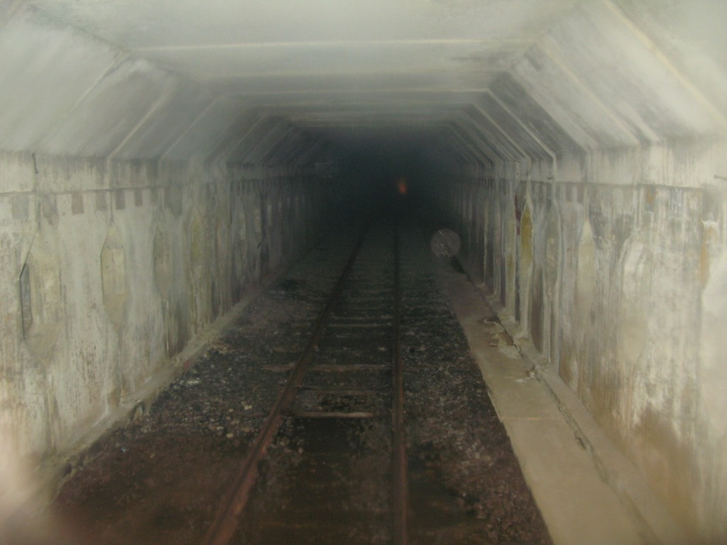 The High Temperature Tunnel of Kurobe Senyo Railway (Jobu Track), Kurobe, Japan.